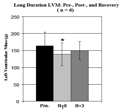 Figure 5. Left ventricular mass before and after long-duration space flight. Other information Page 10